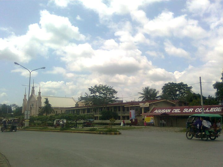 This is a shot of the Agusan del Sur College and Iglesia sa Diyos in Bayugan, Philippines